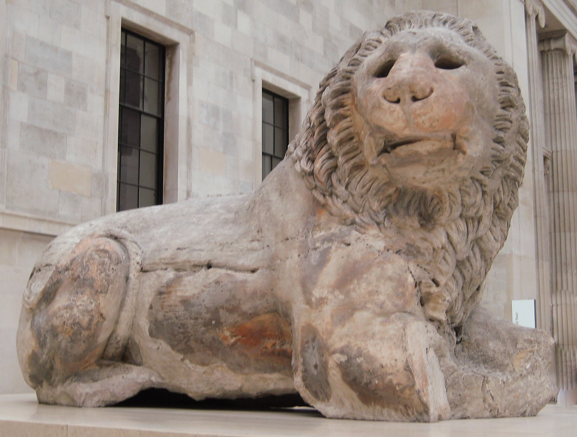 The Lion of Knidos.